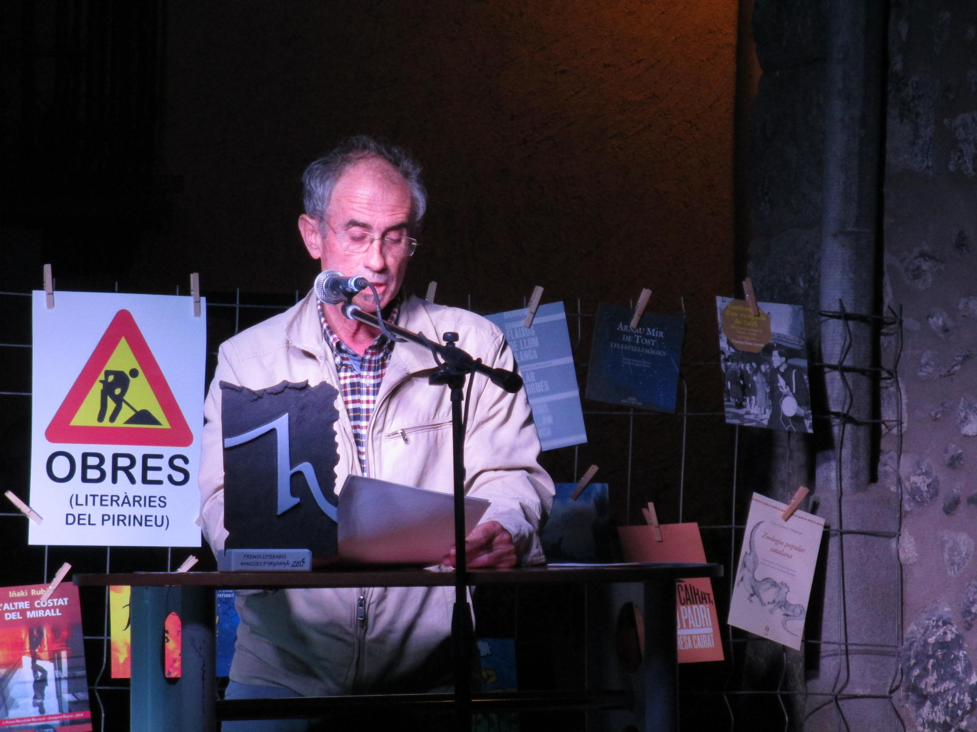 Pep Coll llegint l´ homilia laica.